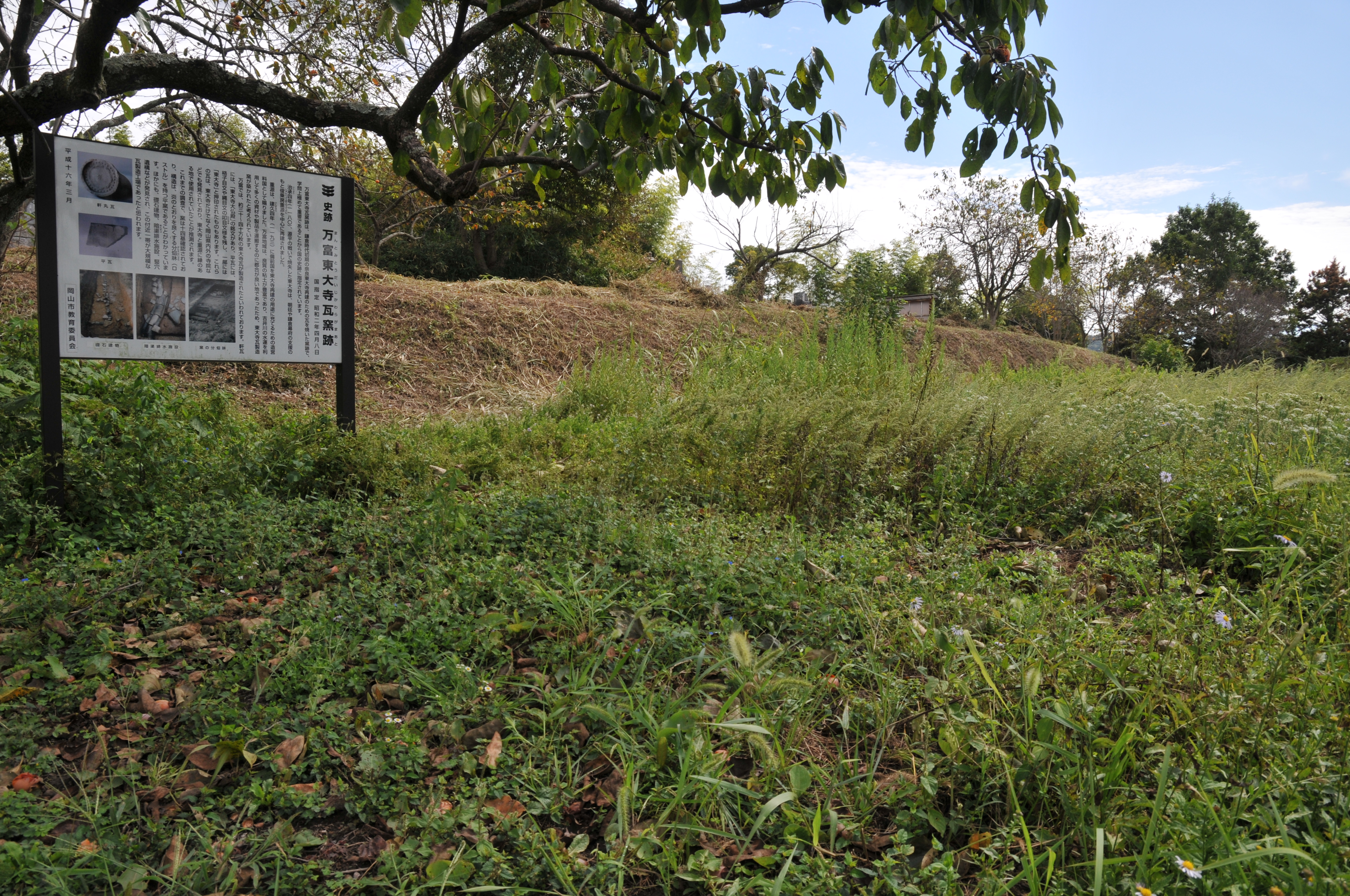 Ōterayama area form north side, Mantomi Todaiji Gayo Site